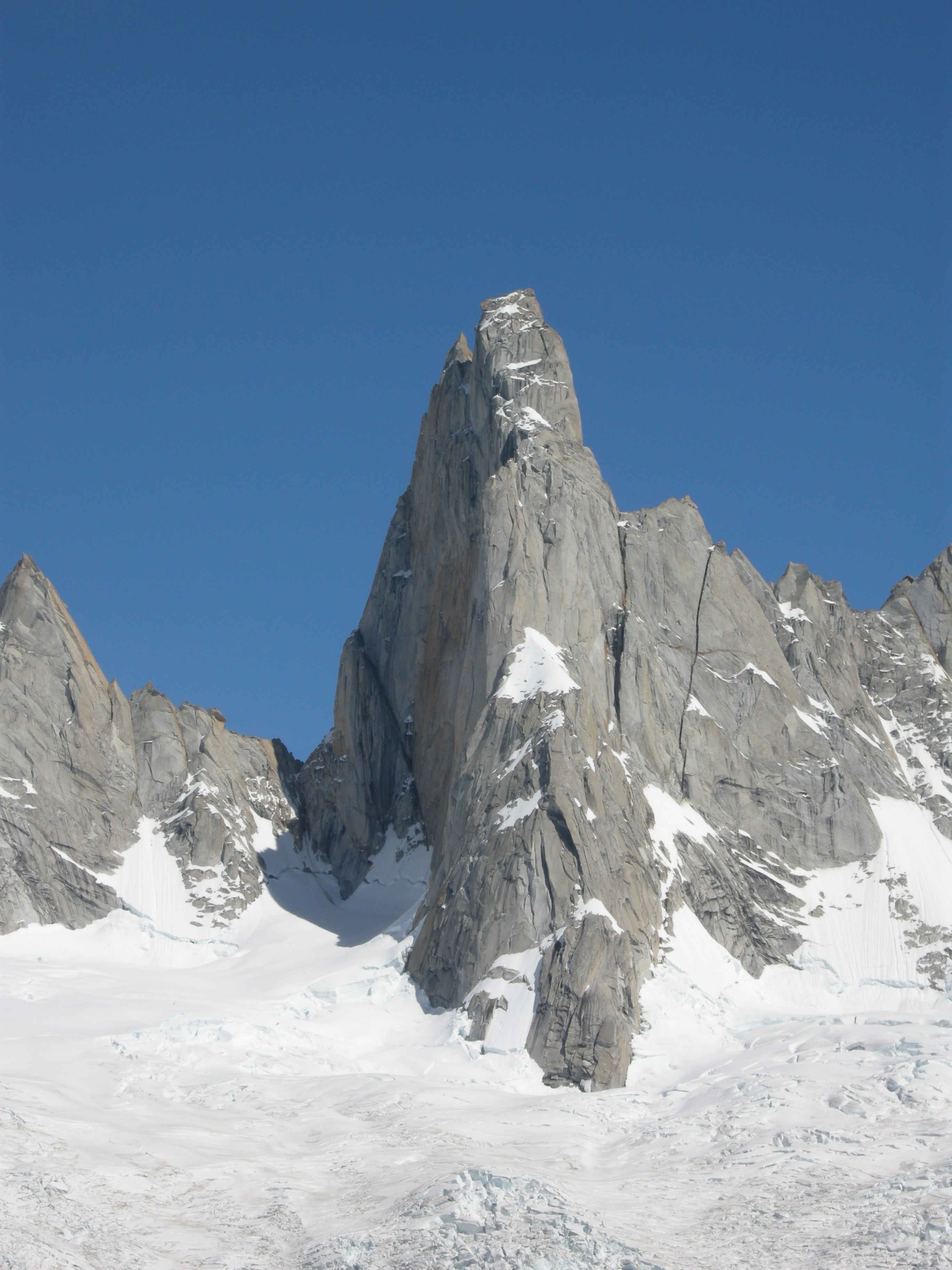 East face of the Aguja Saint-Exupery in the Fitz Roy massif, taken from the Laguna de los Tres. Los Glaciares National Park, Santa Cruz Province, Argentina